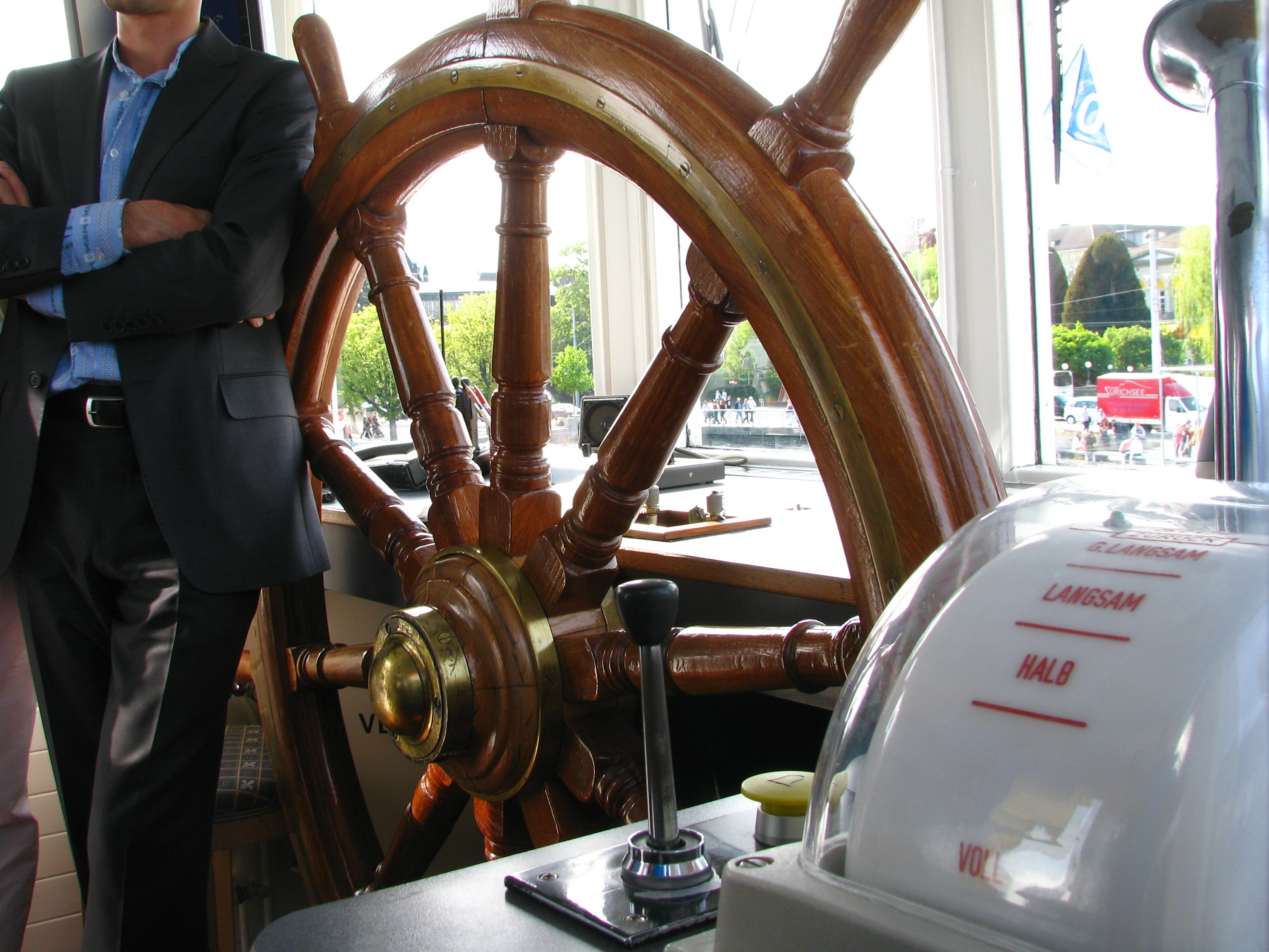 Zürichsee-Schiffahrtsgesellschaft (ZSG) : Paddle steamship «Stadt Zürich» (wheelhouse) at Zürich-Bürkliplatz.